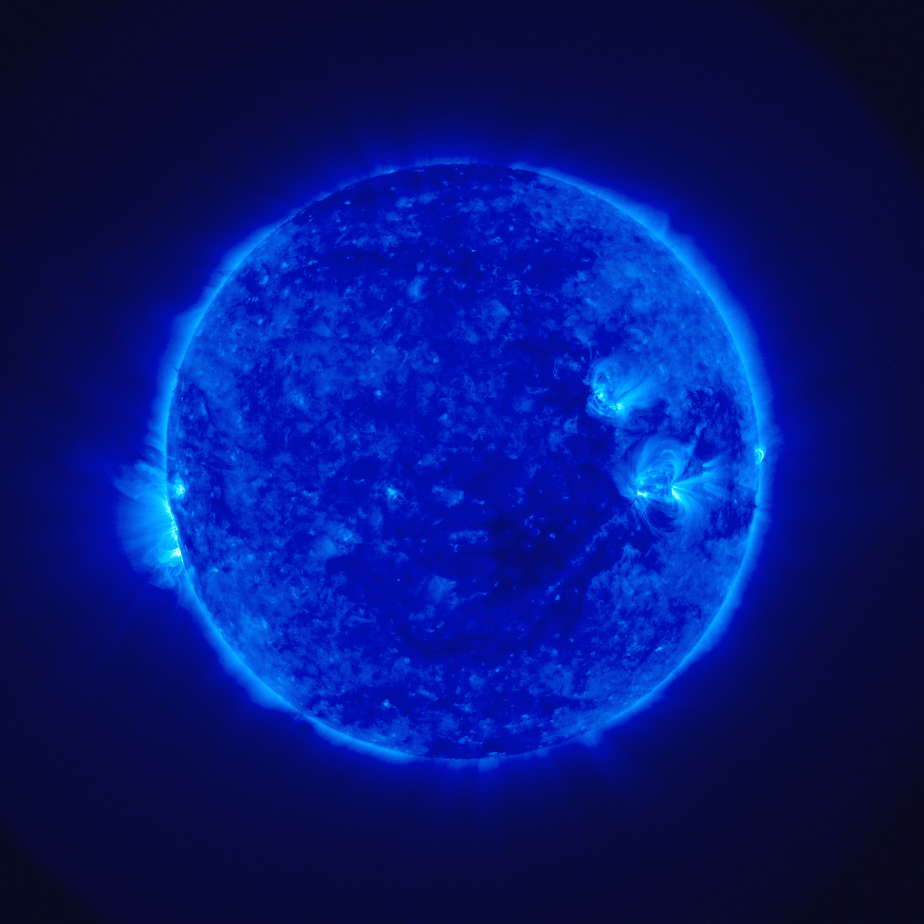 Blue (171 Angstroms) full disk image: The Sun's million degree atmosphere taken on Dec. 4 by STEREO's SECCHI/EUVI telescope. The close-up of the active region is cropped from the full disk image. One of the first images taken by the STEREO mission. Property of NASA therefore in the public domain.